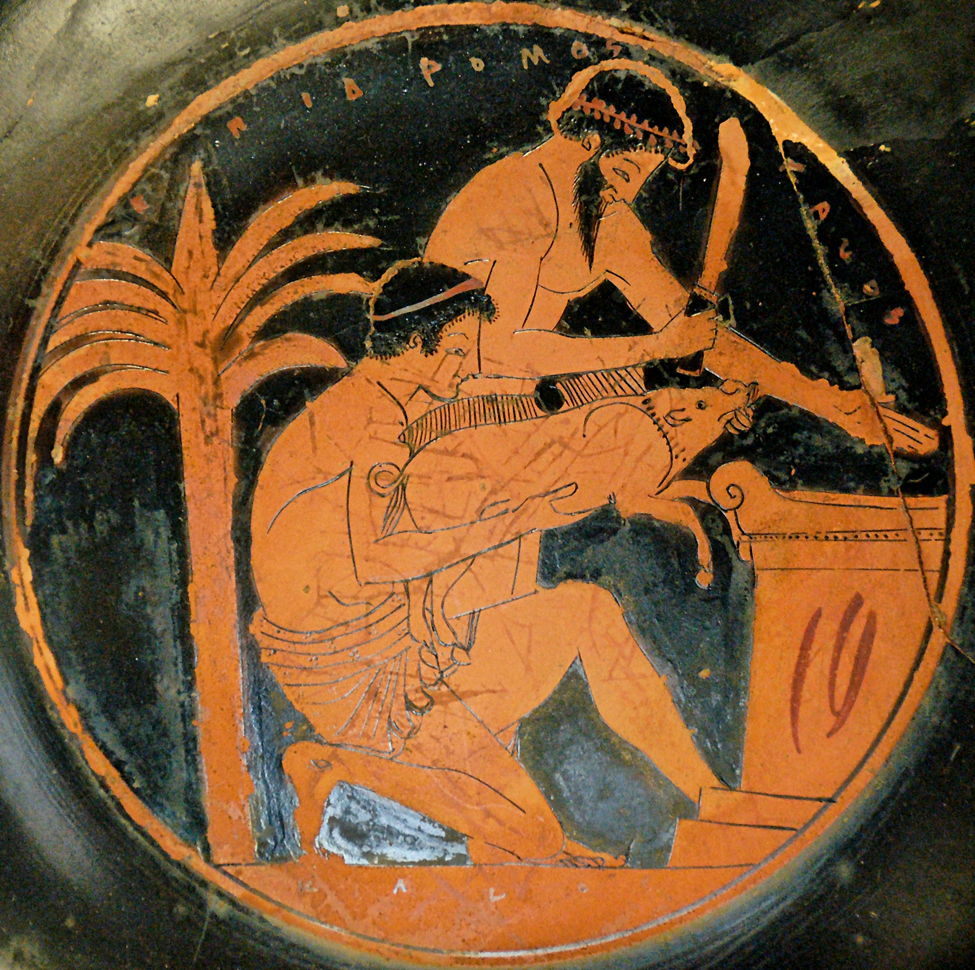 Sacrifice of a young boar, with kalos inscription (ΕΠΙΔΡΟΜΟΣ ΚΑΛΟΣ). Tondo from an Attic red-figure cup, ca. 510 BC–500 BC.